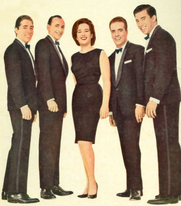 Los Huanca Hua. Folk group. Argentina. Members from left to right: Chango Farías Gómez, Carlos "Coco" del Franco Terrero, Marián Farías Gómez, Guillermo Urien, Pedro Farías Gómez.